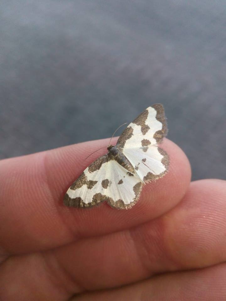 Lomaspilis marginata. Stawczany. Lviv. Ukraine. 5 Maj 2018